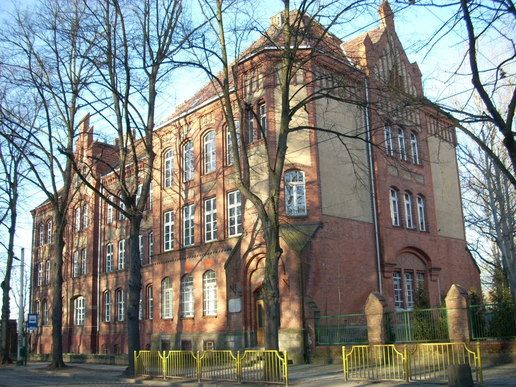 Szczeciński Park Naukowo-Technologiczny siedziba